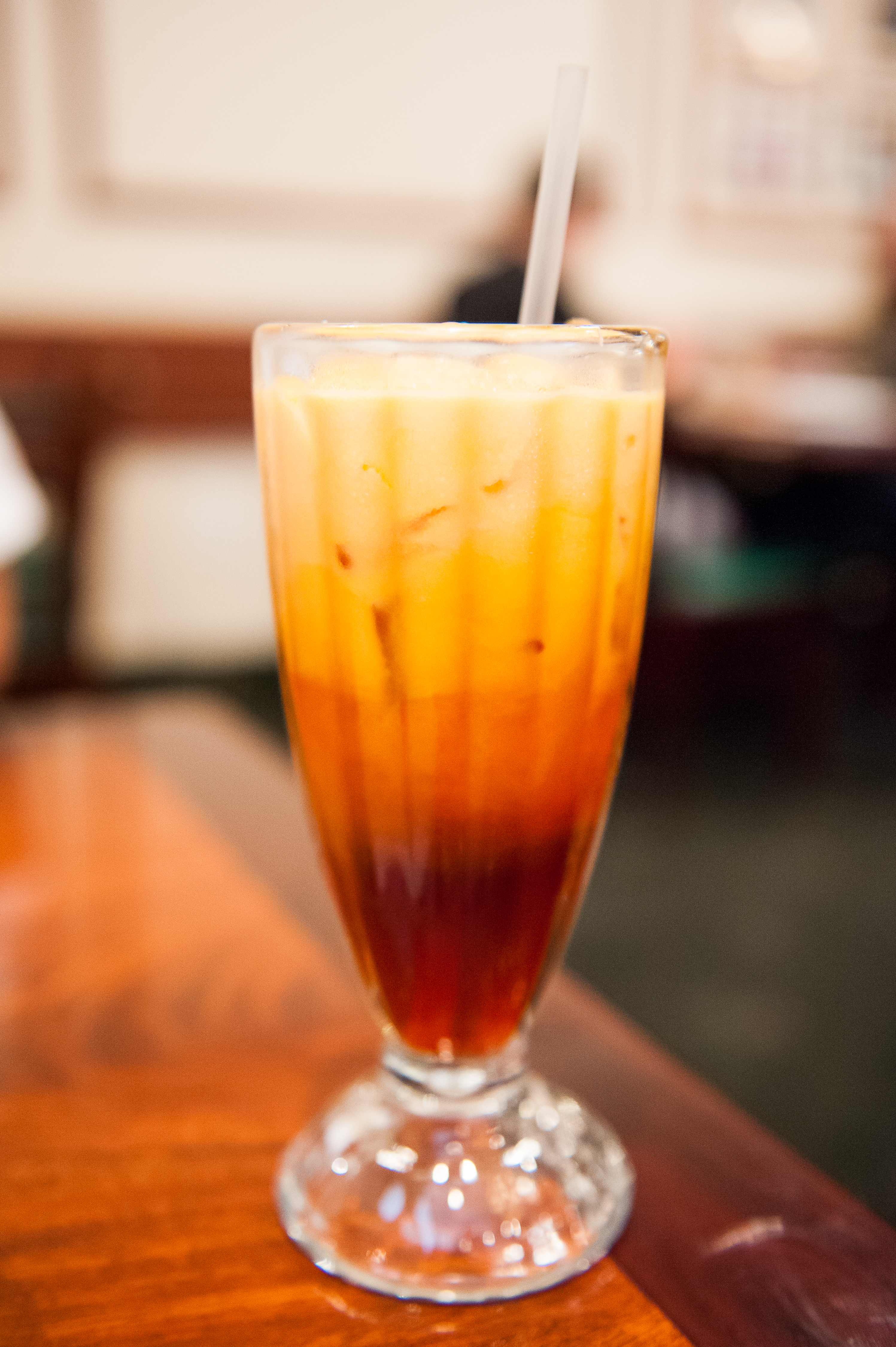 Thai iced tea at Lotus of Siam in Las Vegas, Nevada